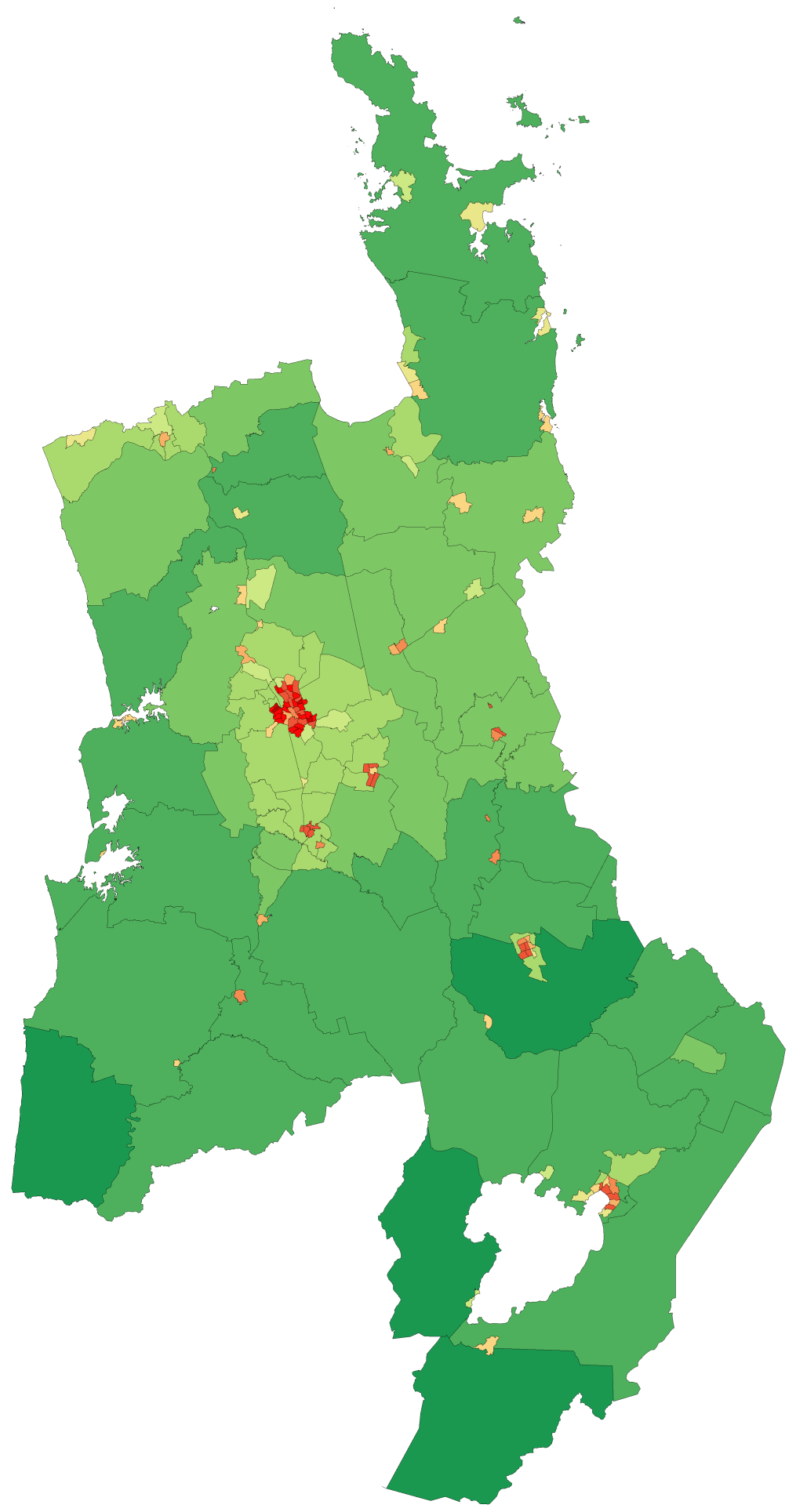 Map showing population density of a region of New Zealand (by Statistics NZ Area Unit) as of the 2006 census